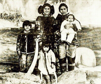 Photograph of Inuit actress Columbia Eneutseak (center, rear) with her family, an illustration in the trade publication The Moving Picture World (New York, N.Y.), August 5, 1911, p. 291. Born at the World's Columbian Exposition in Chicago in 1893, Columbia later performed in several American silent films, including The Way of the Eskimo (1911). Here 18-year-old Columbia poses with three of her siblings and with her mother Esther, who is holding her baby Oscar. Esther's other children, in addition to Columbia, are her son Norman (left) and Florence (in front of Columbia). All are wearing traditional Inuit attire and are posing in front of a painted backdrop depicting the hindquarters of a dead polar bear and the activities of other "Eskimos" in the distance; walrus tusk in foreground.